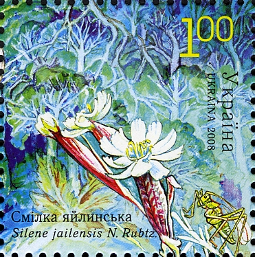 Ukrainian stamp depicting Selene jailensis plant